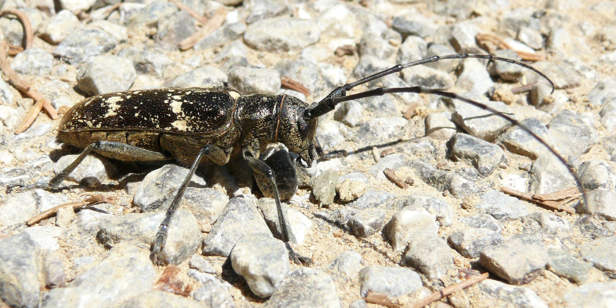 Female Longhorn-beetle Monochamus sartor, picture taken in the Allgäu area, Bavaria, Germany det. Manfred Egger